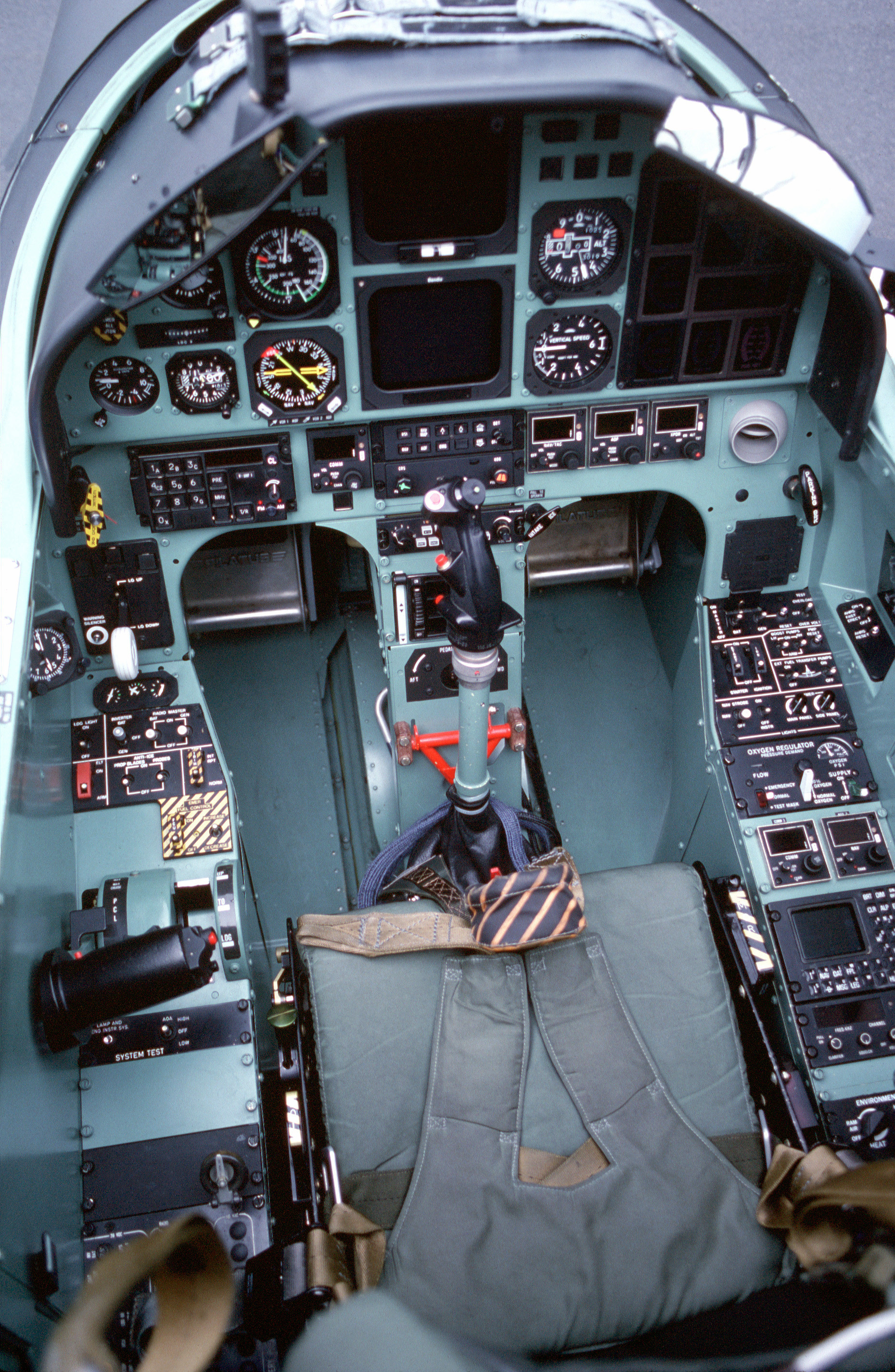 A view of the interior of the cockpit of a Swiss-made Pilatus PC-9 aircraft that is undergoing evaluation by a U.S. Army test board.